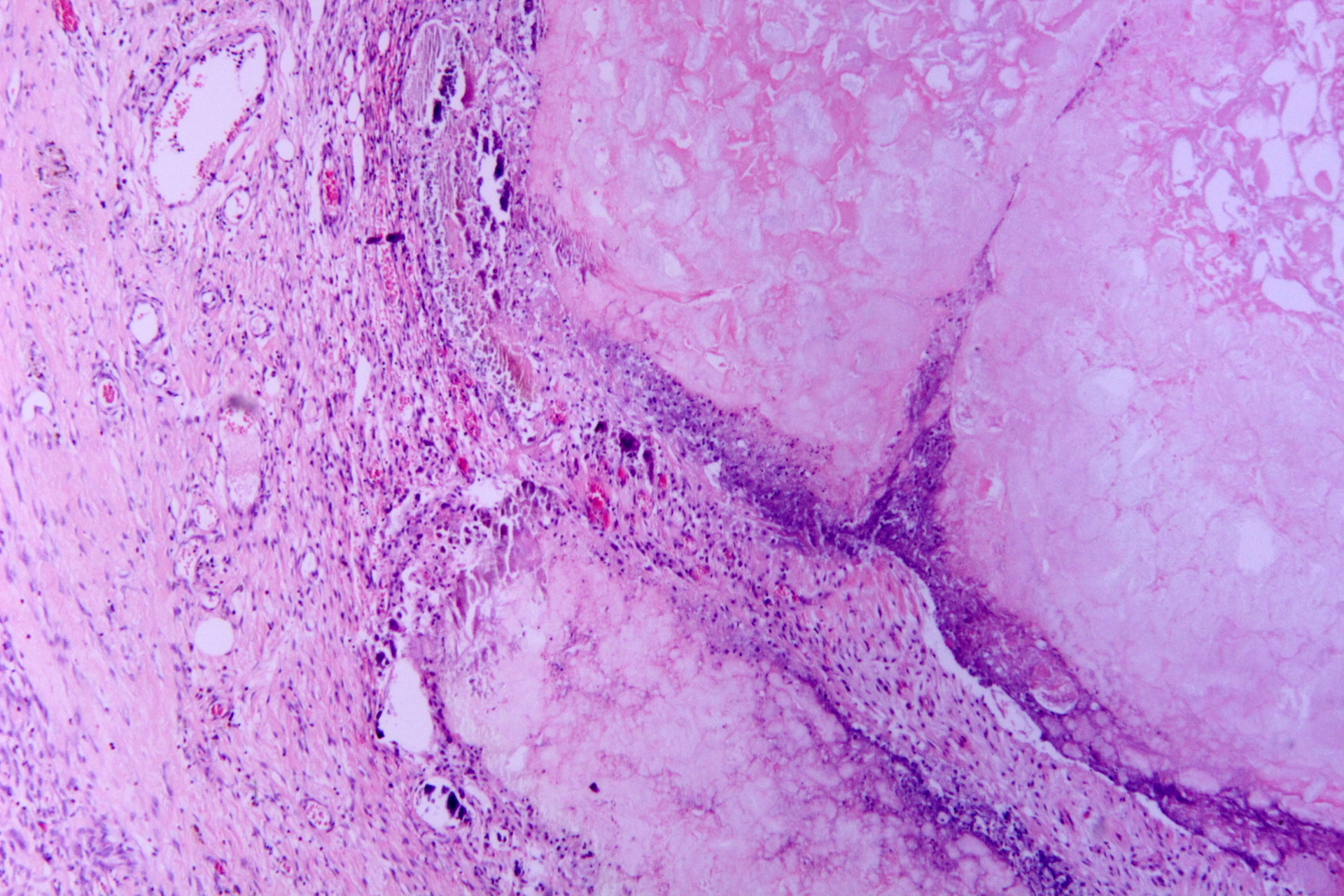 Tryptic fat tissue necrosis in severe pancreatitis.